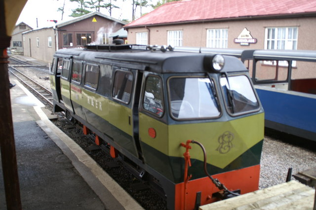 Ravenglass Locos-03